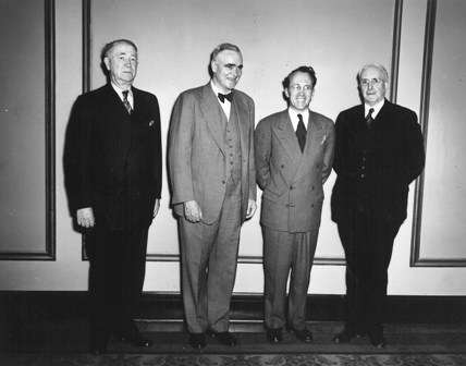 Dr. J.M. Unrich, Dr. R.G. Ferguson, Premier T.C. Douglas, Dr. F. Munroe, All Ministers of Health during Dr. Ferguson's career